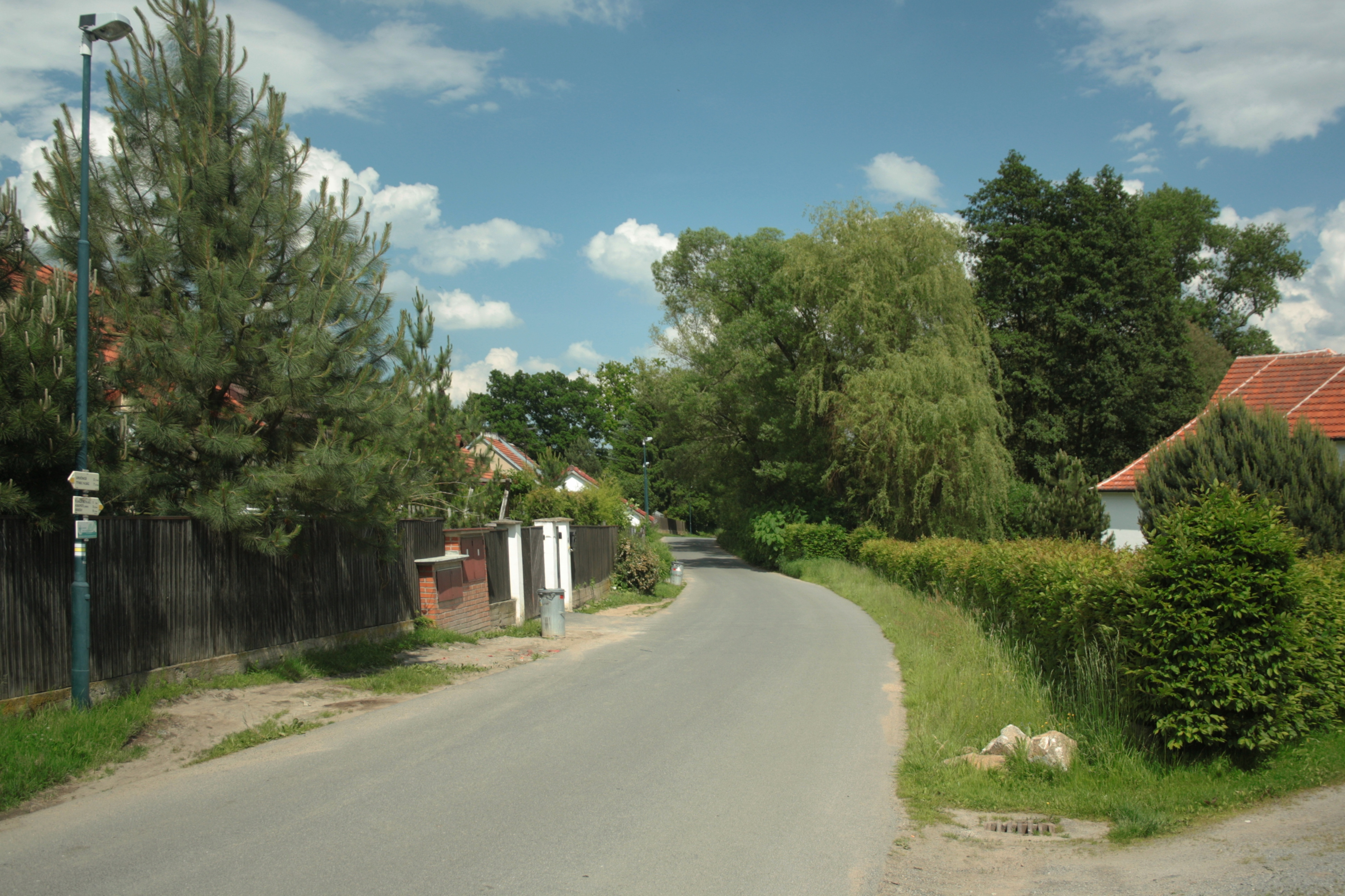 Main road in the village of Žabovřesky, part of Chlístov town, Central Bohemian Region, CZ